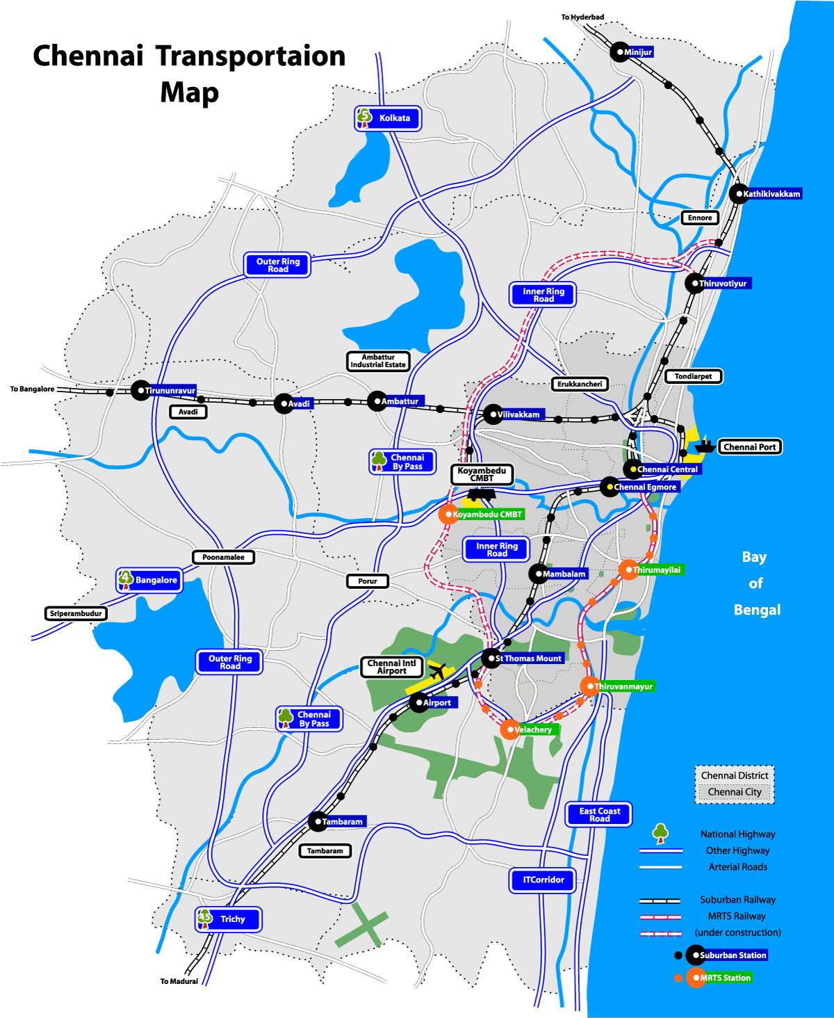 Transportation map for Chennai district